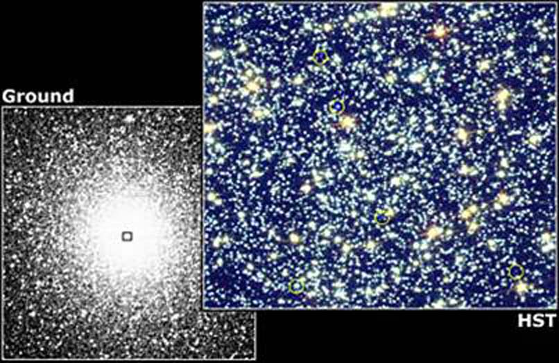 This picture compares a ground view (left) of globular cluster 47 Tucana and a Hubble Space Telescope shot (right) of the same thing. Notice the blue stragglers, which are circled in (somewhat difficult to see) yellow.